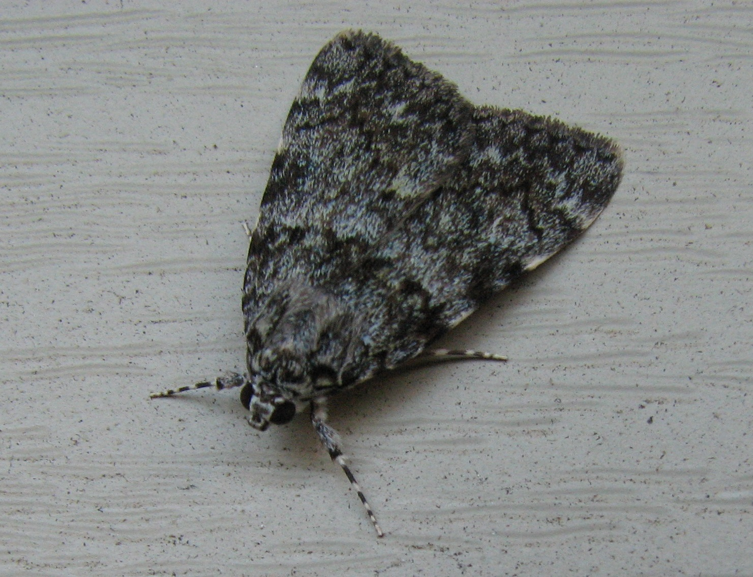 Catocala lineella or Catocala amica-lineella (the two species cannot be distinguisehd by photos Willow Grove, Montgomery County, Pennsylvania, USA. Southeastern Pennsylvania, USA